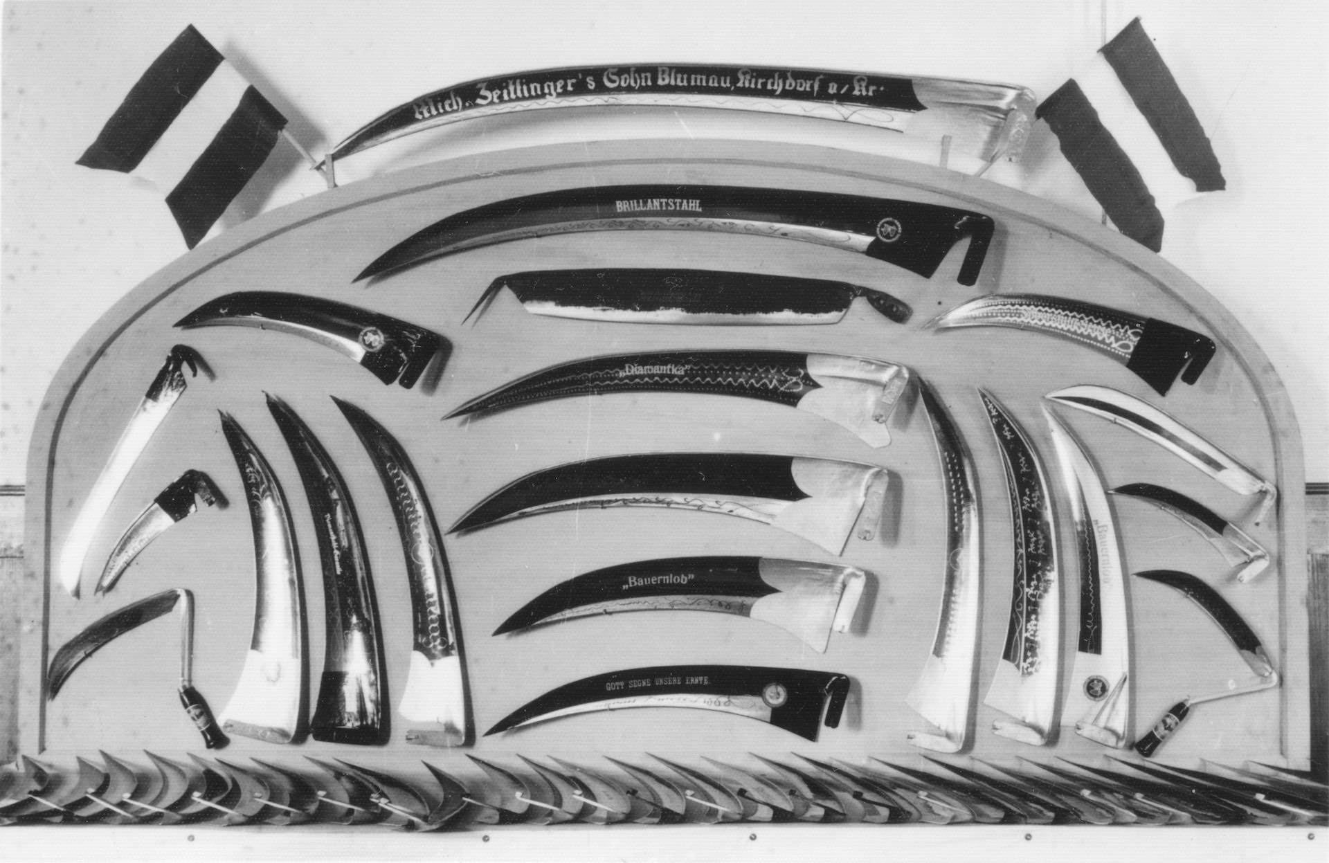 Produktpalette des Sensenwerks Blumau (20. Jahrhundert)